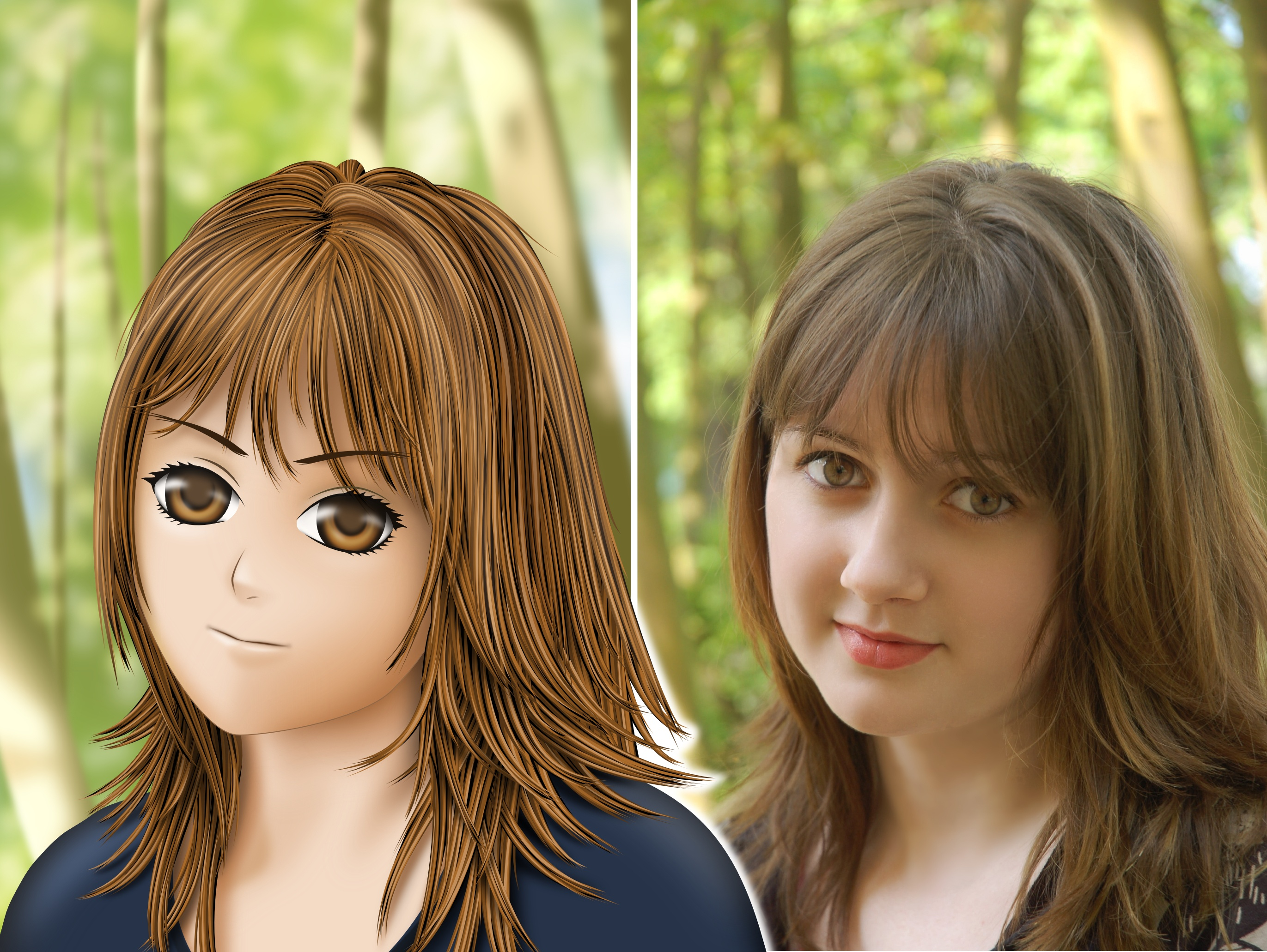 Comparison between a photograph and a drawing in anime/manga style from the same viewpoint.